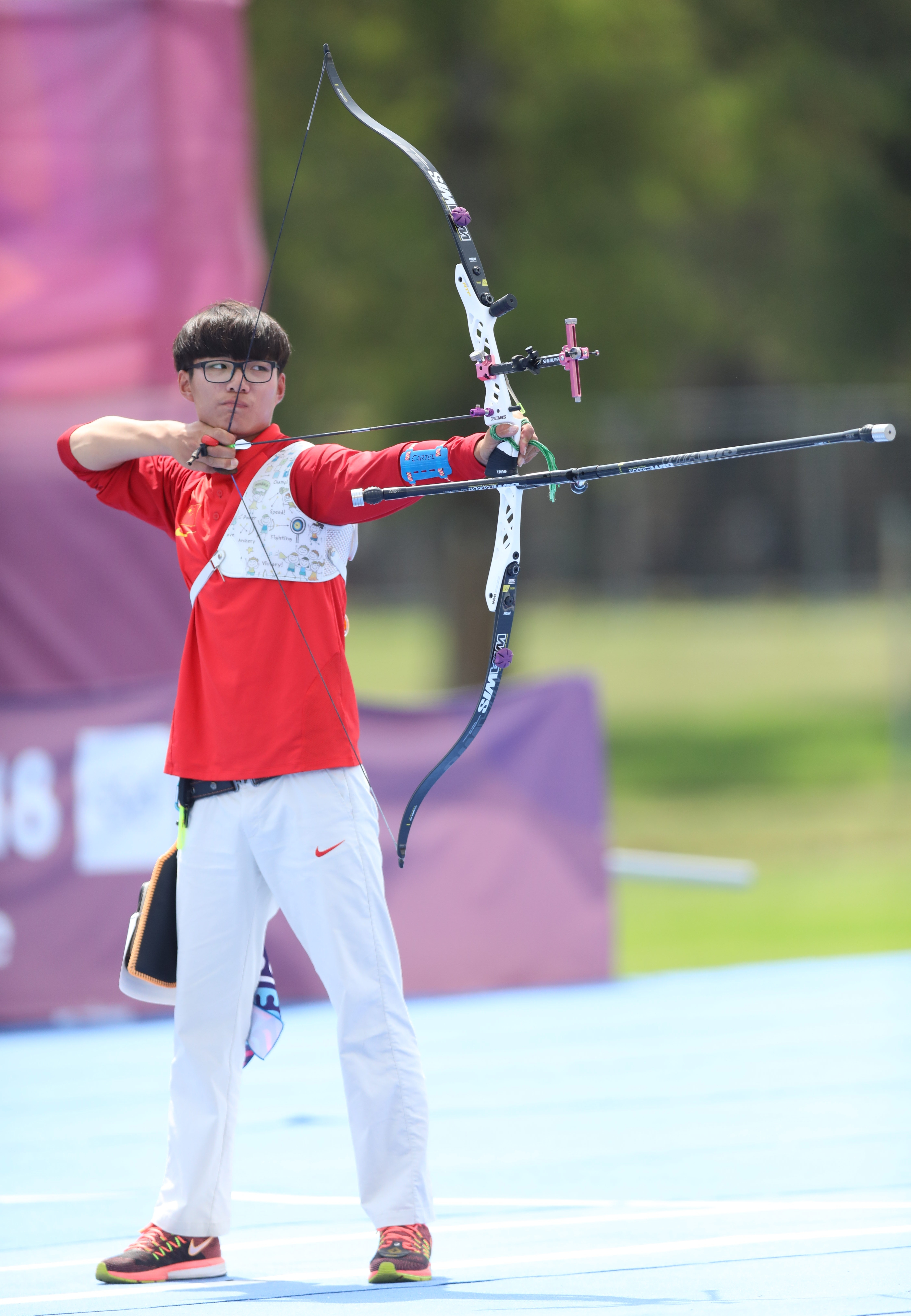 2nd round section 3 match of the boys' archery at the 2018 Summer Youth Olympics in Buenos Aires on 12 October 2018: Sri Lanka vs. China.